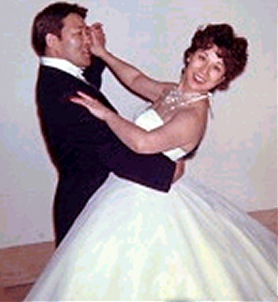 1964 photo of Ken and Miye Ota for biographical use.